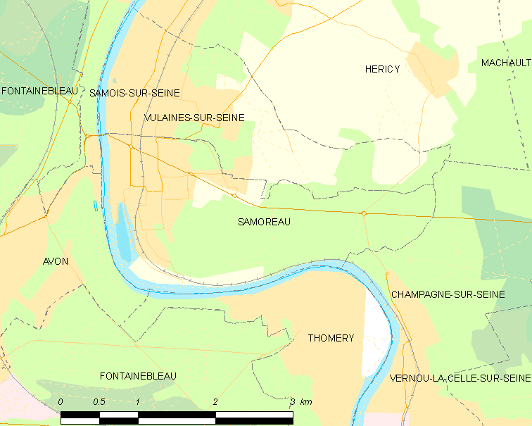 Map of French municipality Samoreau